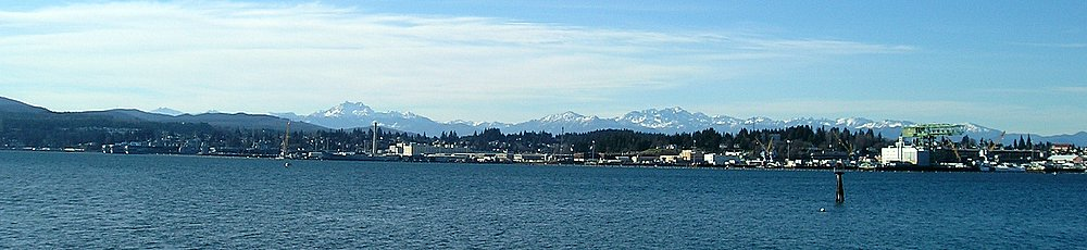 View of Puget Sound Naval Shipyard, Washington, as seen from across the water in Port Orchard.